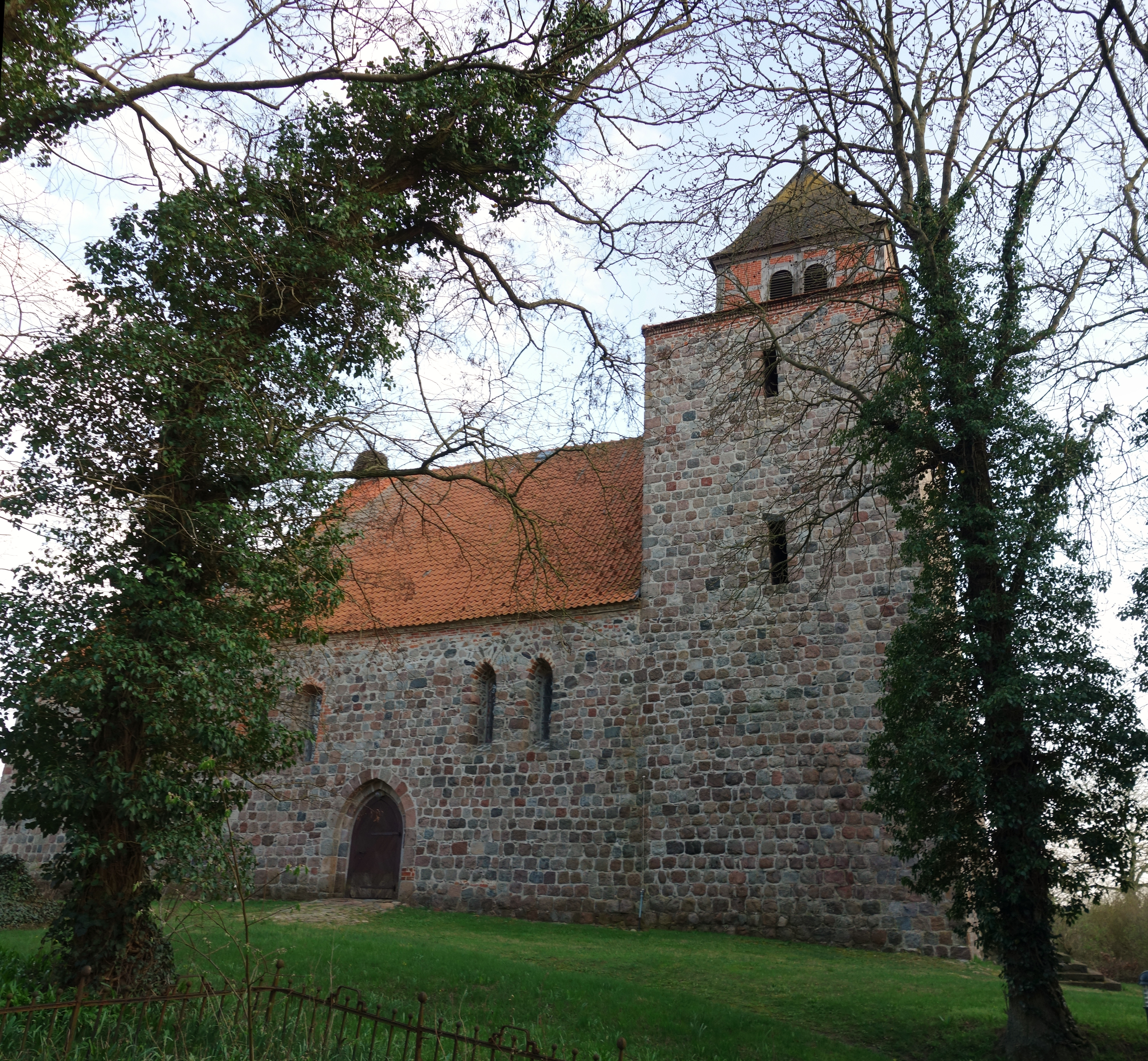 North-western view of church in Hetzdorf, Uckerland municipality, Uckermark district, Brandenburg state, Germany